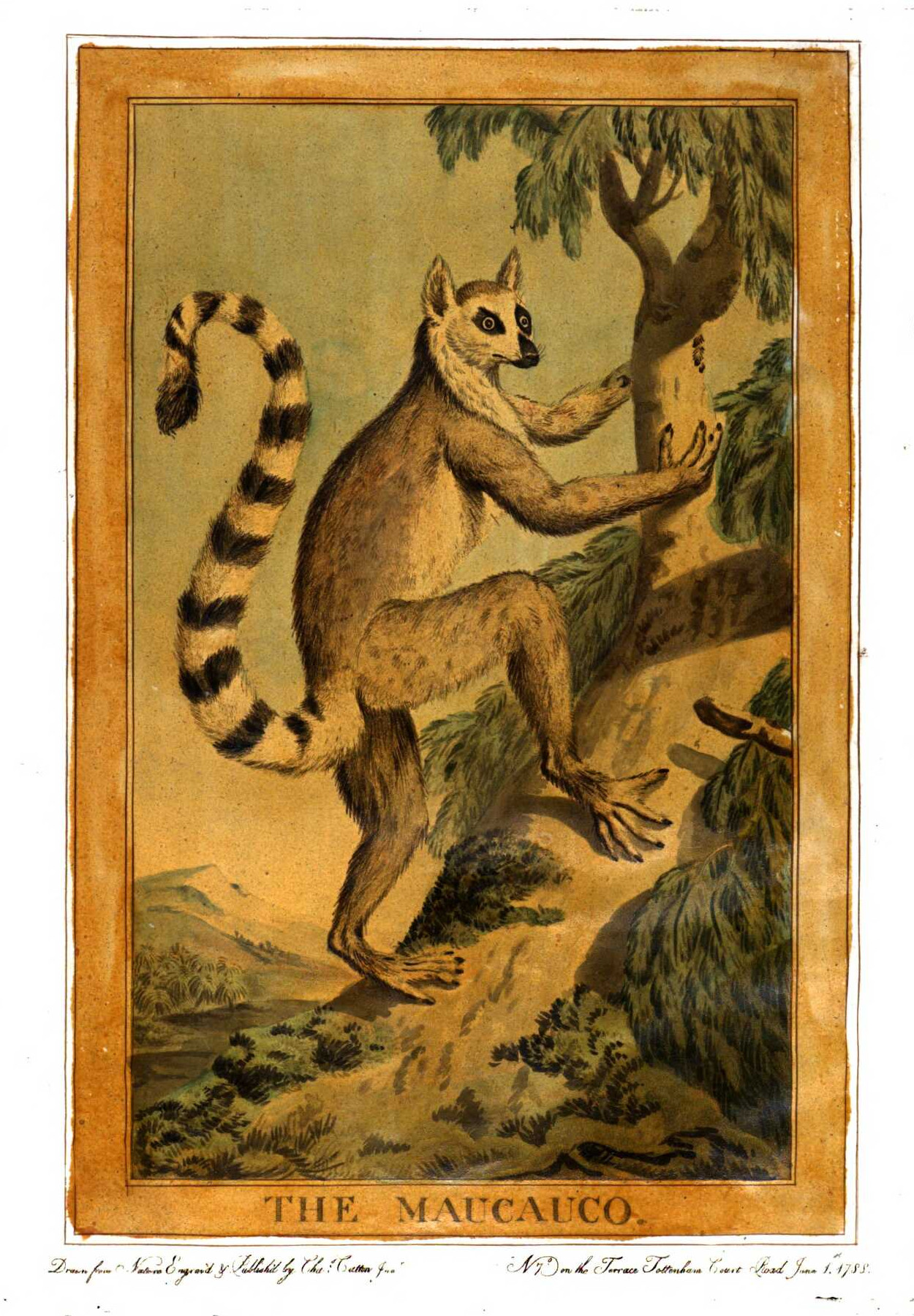 Illustration from Charles Catton the Younger Animals drawn from nature and engraved in aqua-tinta